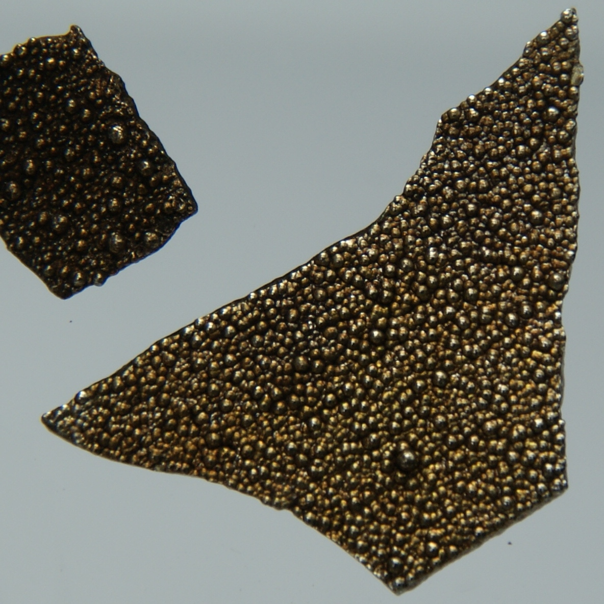 Manganese chip.